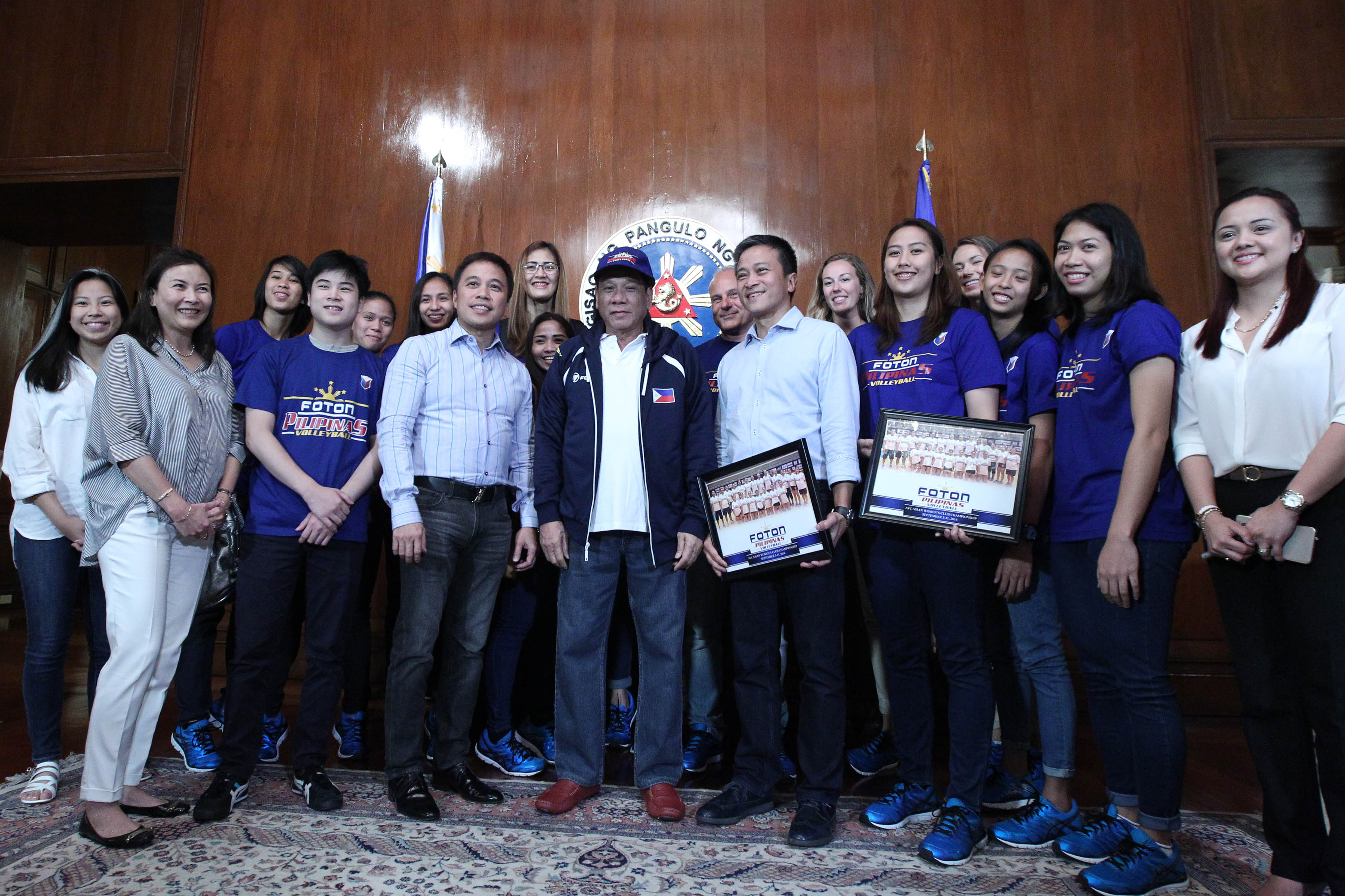 President Rodrigo R. Duterte poses for a group photo with Foton Pilipinas (Foton Tornadoes) Volleyball Team during a courtesy call in Malacañang on August 30.